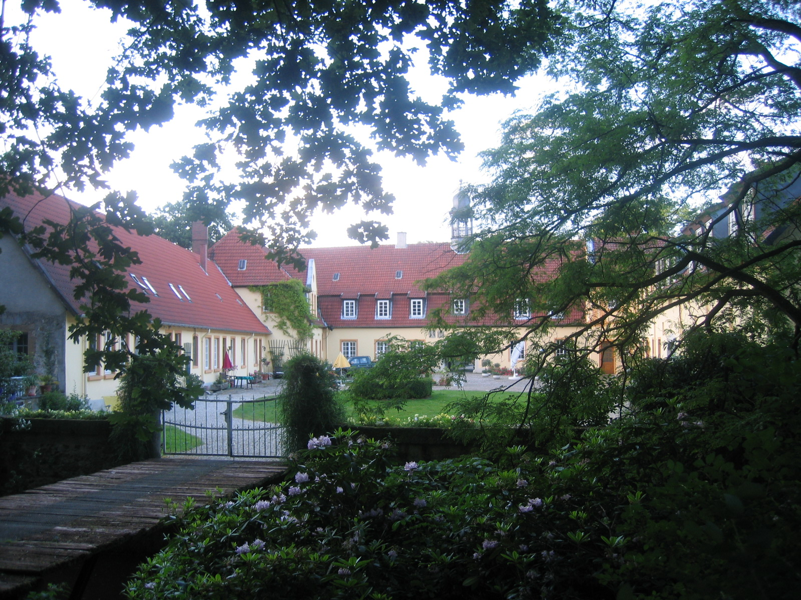 Oberbehme Castle in Kirchlengern, District of Herford, North Rhine-Westphalia, Germany.